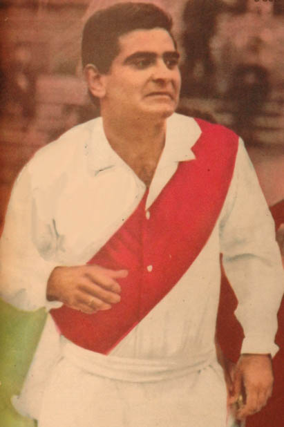 Luis Cubilla playing for River Plate in 1966.